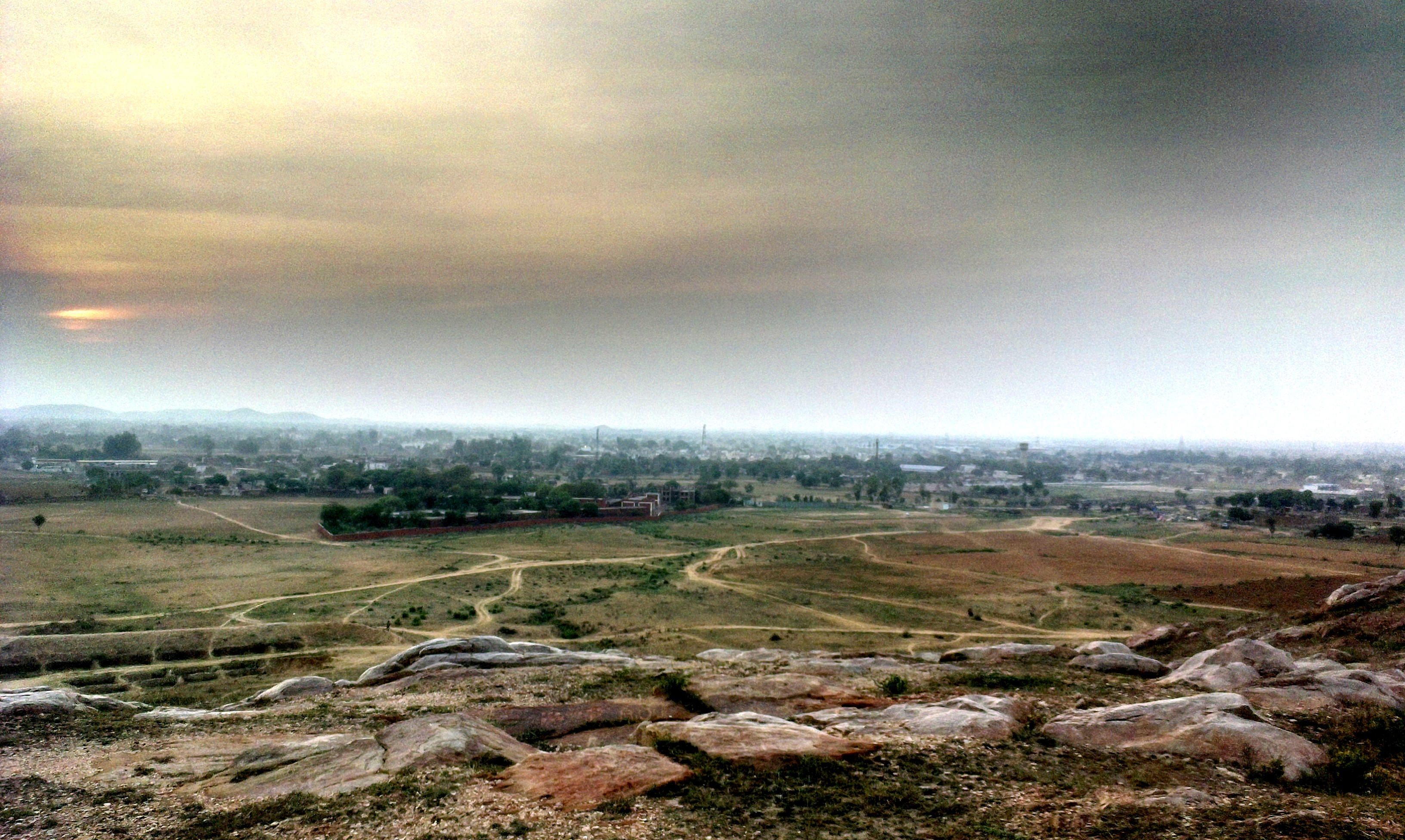 This is a photo of Tauru City this red building ahead is D.P.S. Mewat Model School Tauru, and this pic was taken from hill of 'Aravalli Range', using HTC Desire 501.